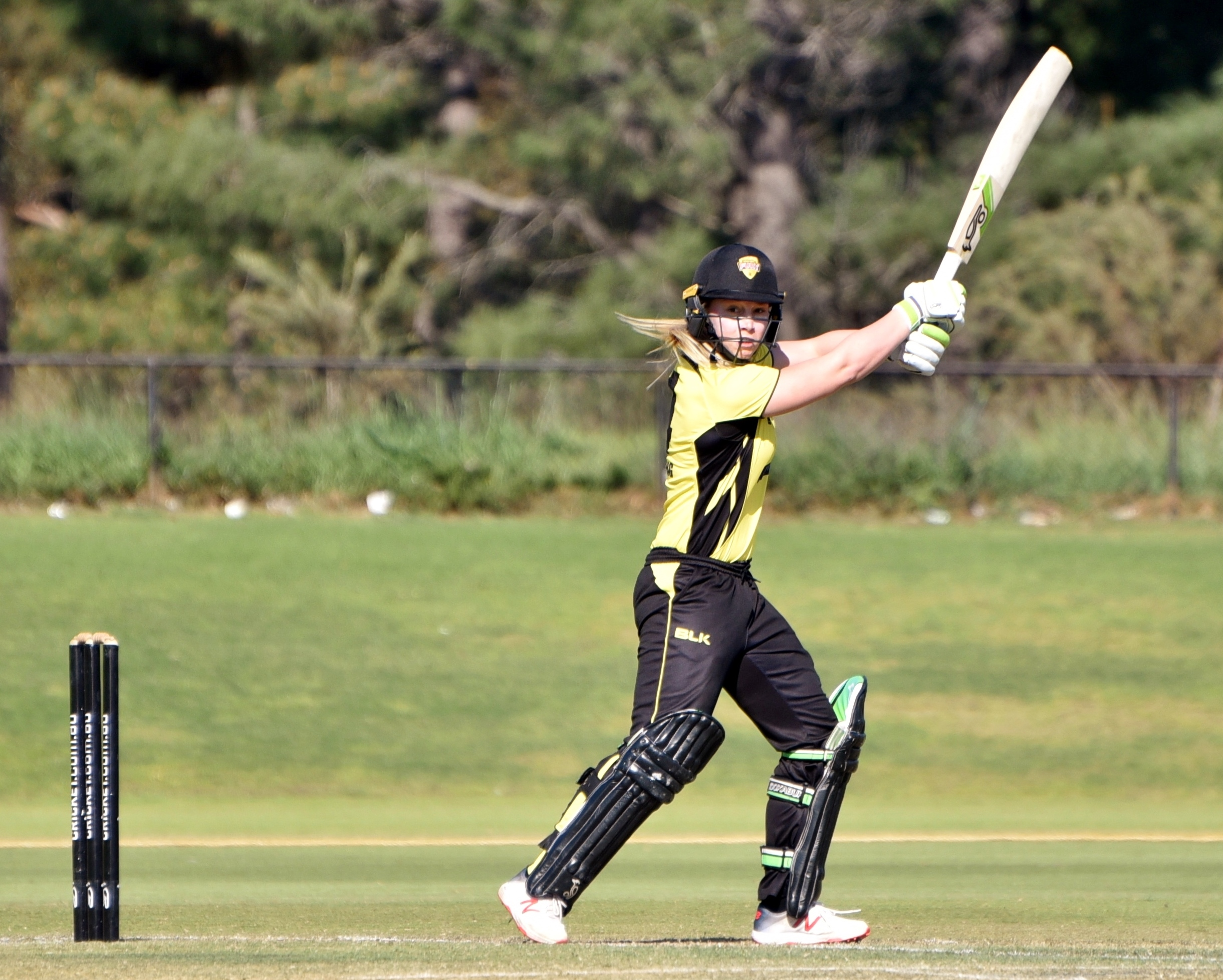 Megan Banting batting for the Western Fury during a WNCL clash against the South Australian Scorpions at Murdoch University Sports Oval in Perth